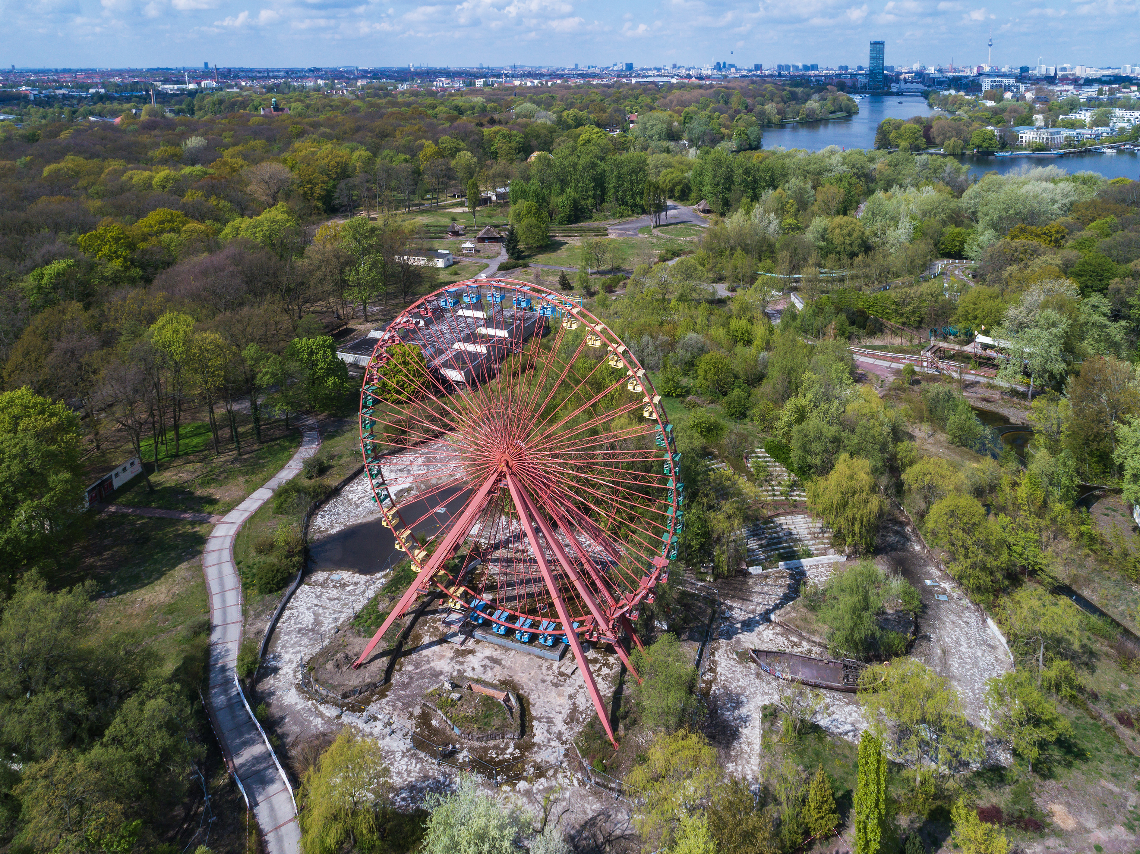 Abandoned Spreepark with ferris wheel in Berlin (Germany)